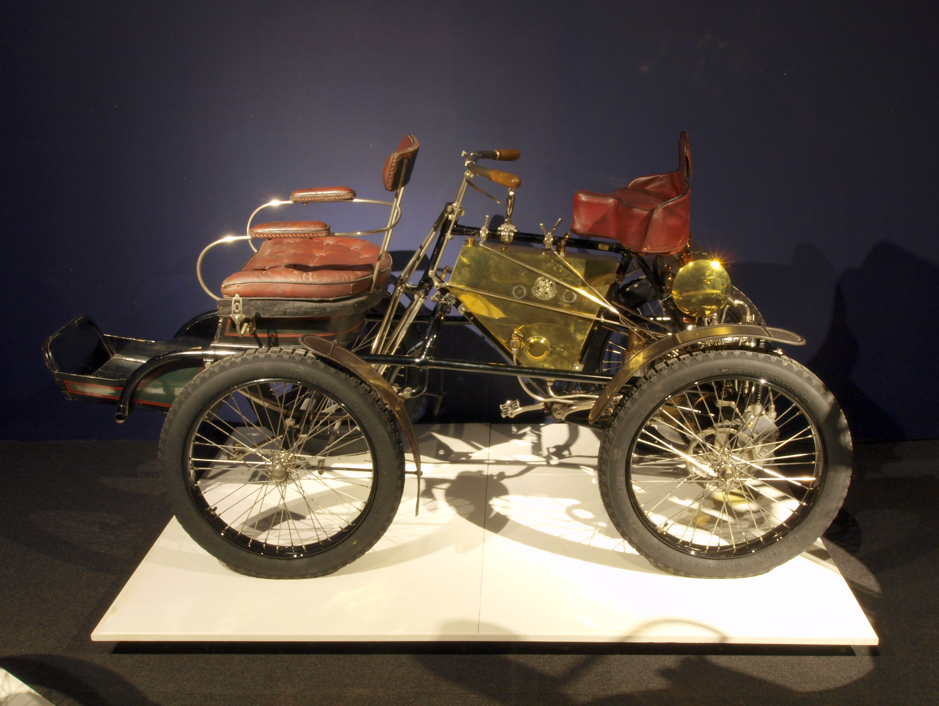 1900 De Dion-Bouton QuadricyclePhotographed at the Louwman museum, The Netherlands.